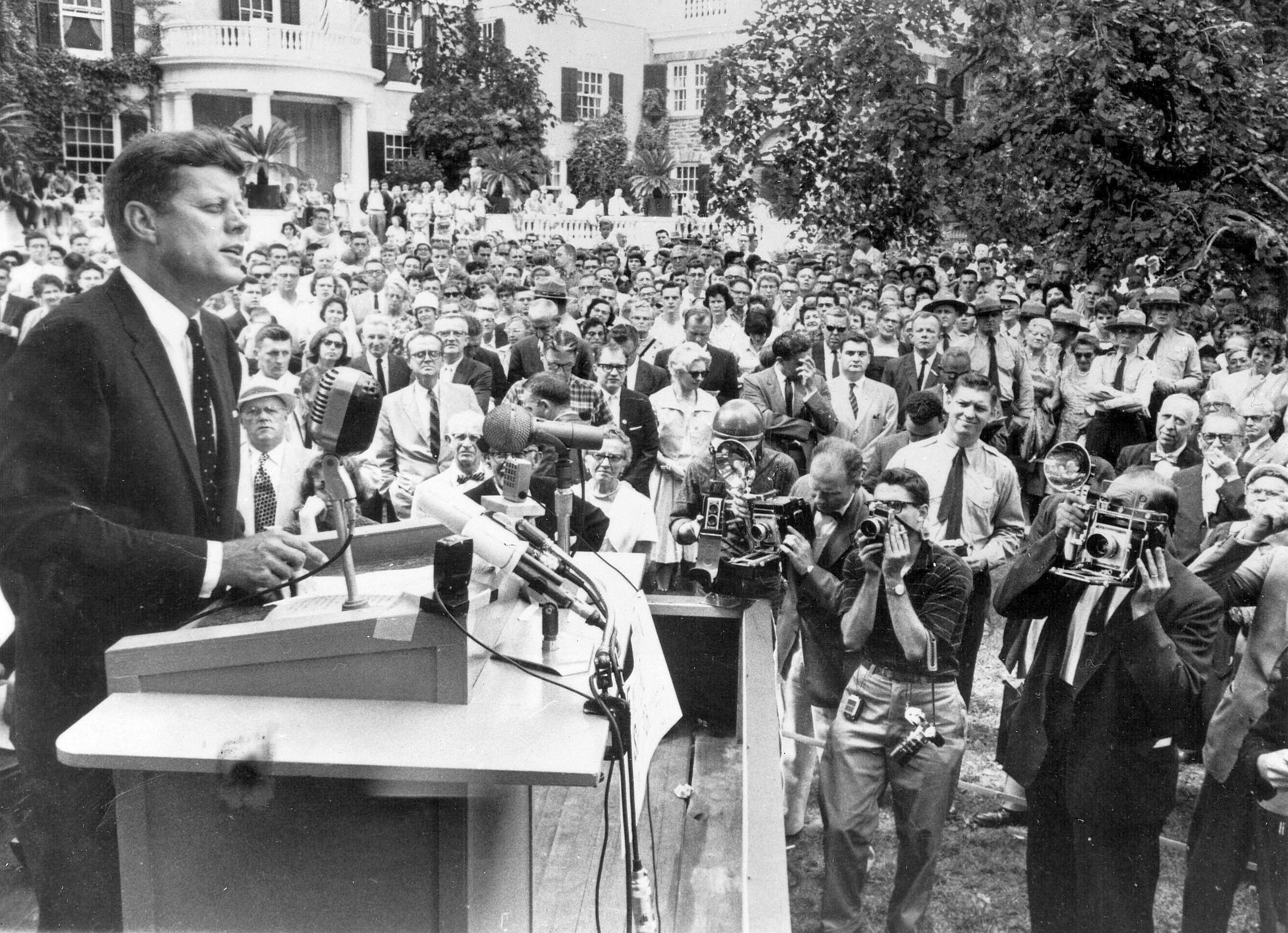 John F. Kennedy speaking in front of Springwood, the Roosevelt home in Hyde Park, New York, during the 1960 presidential campaign. August 14, 1960.